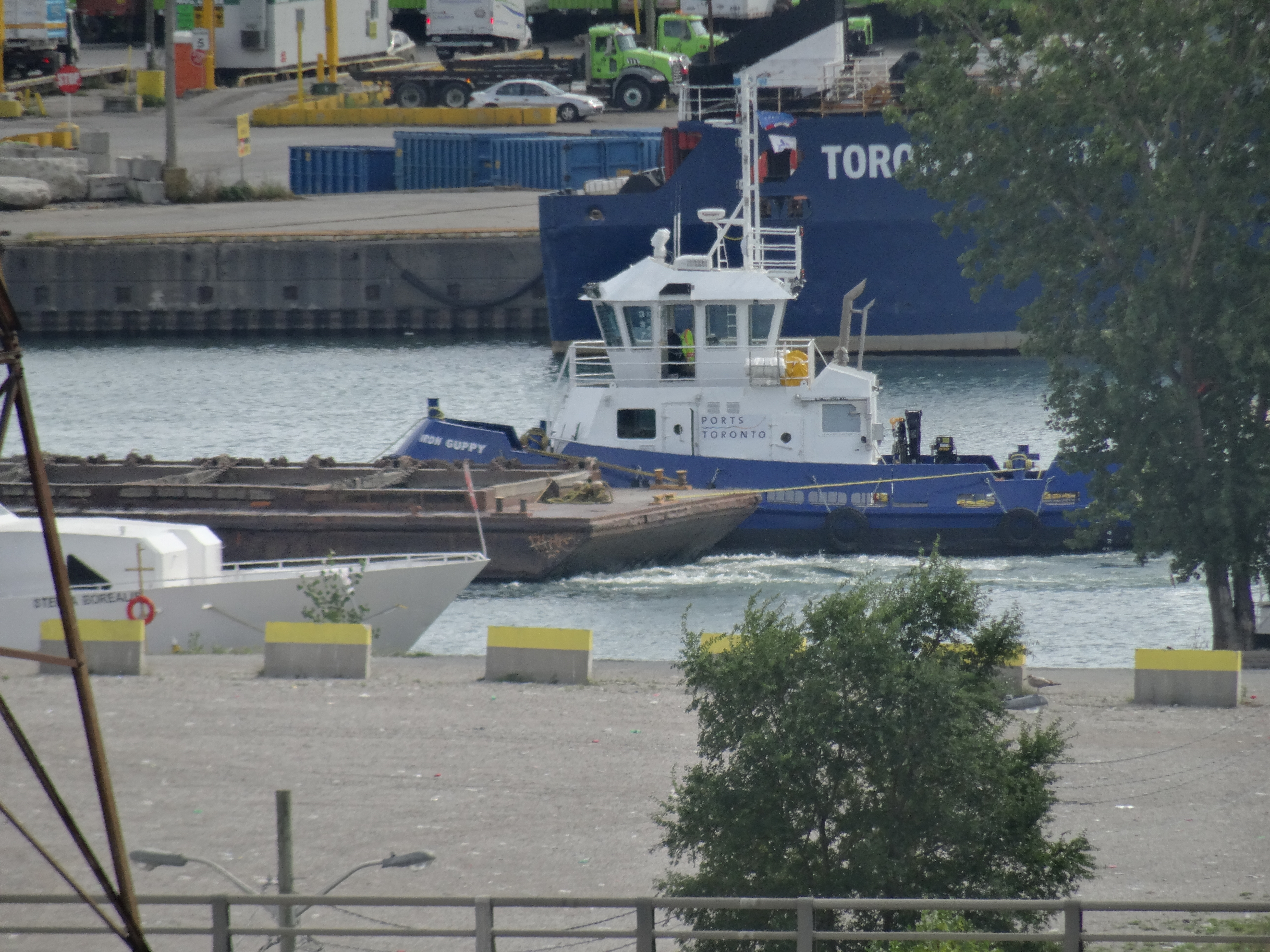 Tug pushing a barge. September of every year the Keating Channel is dredged -- to prevent flooding, during rain storms. Like most cities, sewers and pavement means that even a small storm creates a big burst of floodwater. Anyhow, this barge is returning from dumping the dredged material.